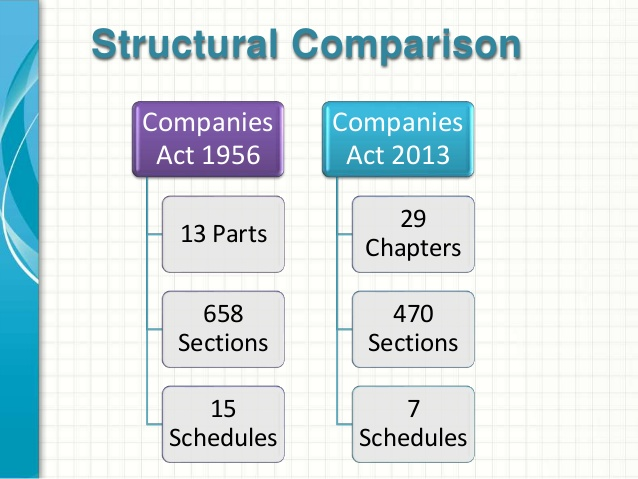 wikipidia